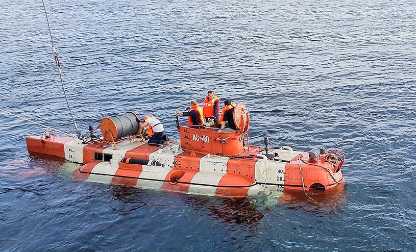 Bester-1.